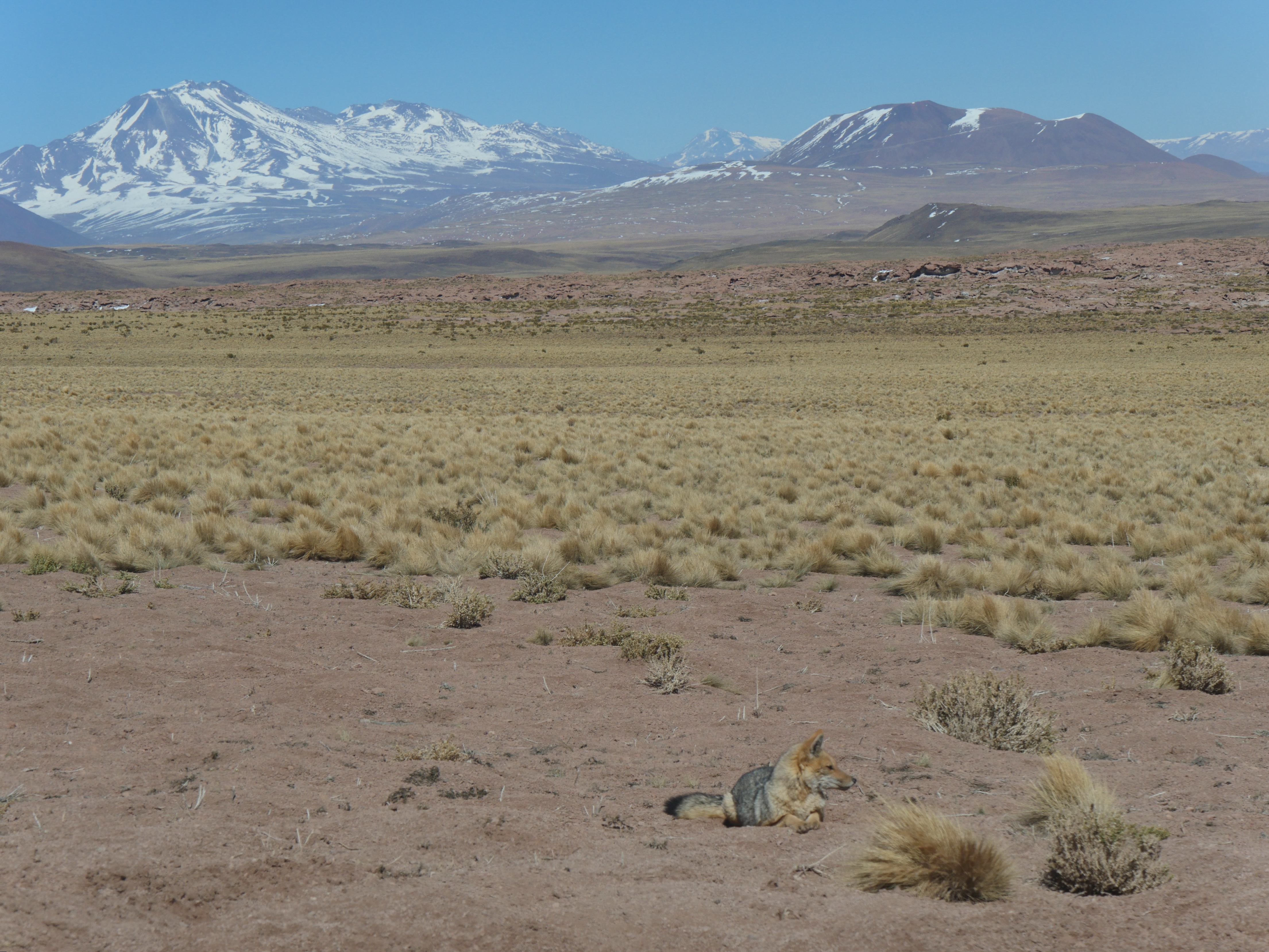 Nearby Socaire, way to Laguna Miscanti, approx. 4000 m asl. A relaxed Andean fox in the Altiplano with the mountains Pular and Toloncha in the background.